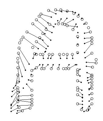 Example of the results of matching